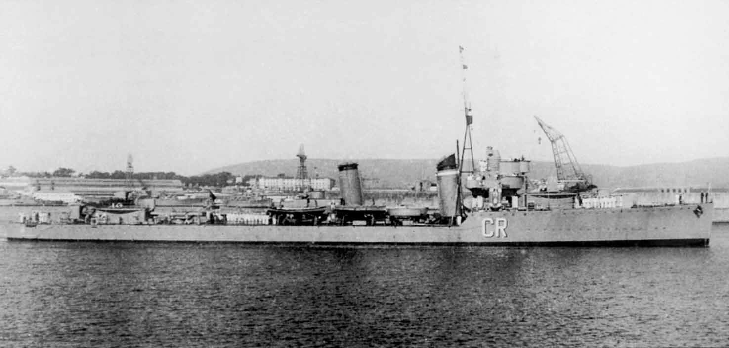 Destroyer Císcar (CR), Churruca I class (1930).